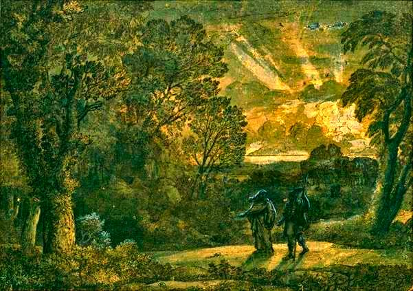 The Sibyl of Cumae Leading Aeneas to the Underworld (enhanced image)